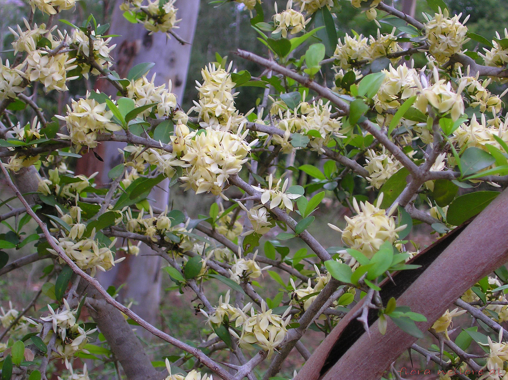 Family: Rubiaceae Distribution: Common in scrubs. limited to Peninsular India. and Sri Lanka. Armed shrubs, 2-3mts tall, spines 0.6-1cm long in axillary pairs. Leaves 2-5x 1-3cm; elliptic obovate, base cuneate, coriaceous, clustered or decussate. Flowers 1-2cm long white fragrant in umbel like axillary cymes. Calyx lobes 5, calyx tube ovoid; corolla lobes 5, twisted to the left in the bud, afterwards spreading, corolla tube has a ring of hairs within,Stamens 5, linear, ovary 2 celled ovules many, stigma fusiform. Fruit 4-6mm across, globose red. Earlier it is known as Randia malabarica Lam, The plant is planted as a hedge plant. fruits edible. Reference: Flra of Nellore district by B.Suryanarayana &A.S Rao, ENVIS, Flora of the presidecy of Madras. by J.S Gamble